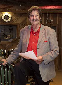 Rick Hall, founder of FAME Recording Studios, sitting in the FAME studio in Muscle Shoals, Alabama